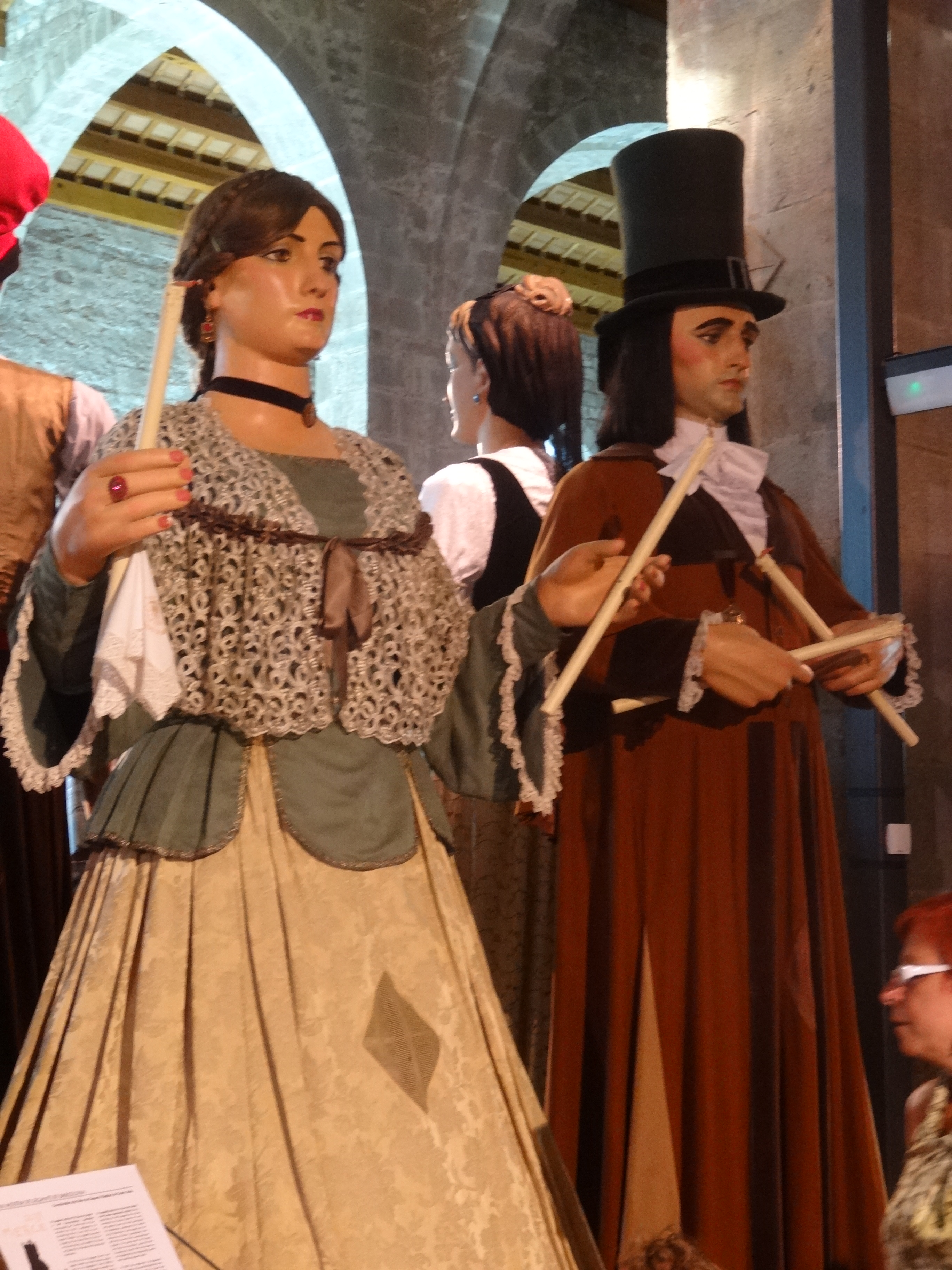 Exhibition of Giants at the Museu Marítim, Barcelona, 2013.